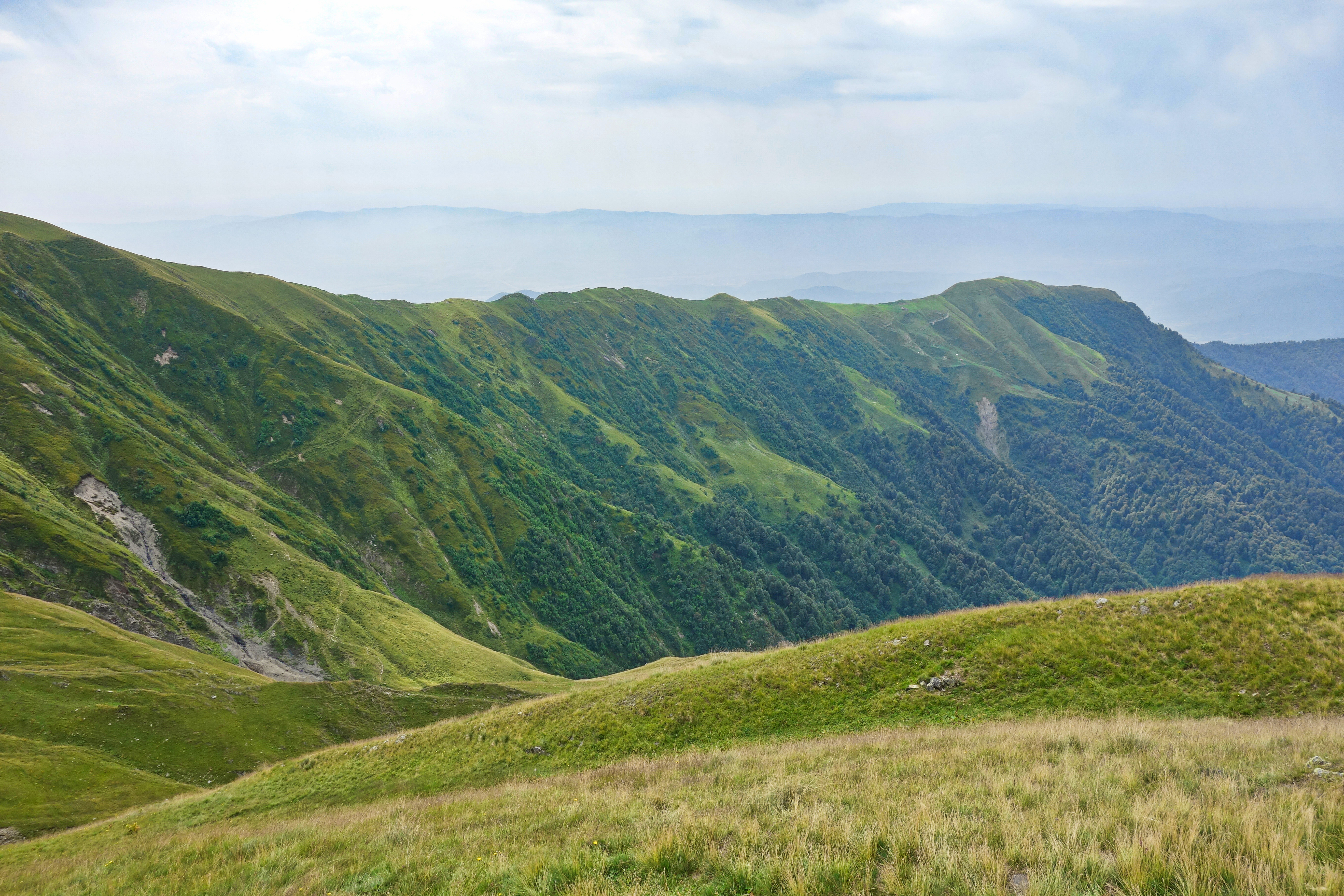 Nakerala Mountain Range as seen from the north, Kakheti, Georgia